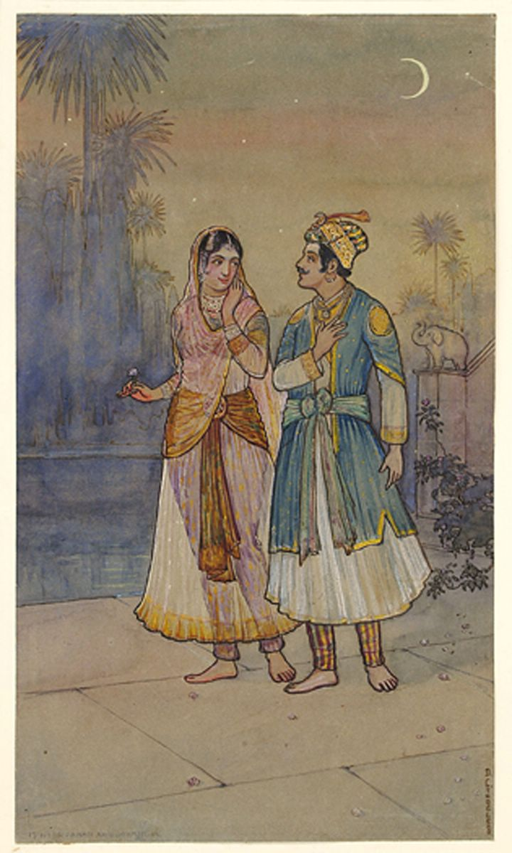 Noorjahan & Jahangir Watercolour & wash on paper 7.0 X 12.5 in. (17.8 X 31.8 cms) Signed in English (Lower Right) Code : JOGLEKARDC06 D C Joglekar was born in 1896. He studied at the J J School of Art, Mumbai between 1912 and 1917, receiving the Government, Lord Mayo and Rao of Kutch Scholarships. He won several Silver Medals from Exhibitions in 1916, 1917, 1919, 1921, 1929 and Bronze Medals in 1912 and 1918. Considered as a great master of the yesteryears from the Bombay School, though he won these various medals his paintings were exhibited for the first time in India only in 2004 as part of the Master Strokes III Exhibition at the Jehangir Art Gallery, Mumbai. An old master Dattatraya Chintaman Joglekar’s range of paintings has a startling polarity of vision despite the overlapping time frame of productivity. He worked mostly in Mumbai, while traveling all over India, was a water colorist whose compositions included panoramic landscapes and architectural facets and views of urban and rural situations .In 1929, he was invited to paint panels depicting the history of the Maratha Empire for the Lahore National Congress. Joglekar was rooted in the indigenous environment; his aesthetic vision was awash with its pulse and rhythm. Perhaps his work as a field and laboratory artist and photographer in the Royal Institute of Science gave him an unusual insight into the topography and panorama of the great Indian hinterland. Together with formal training in art he grew to distinguish himself as a remarkably gifted watercolourist, who was able to bring in the emotive essence of Indian aesthetics into his painterly vocabulary.